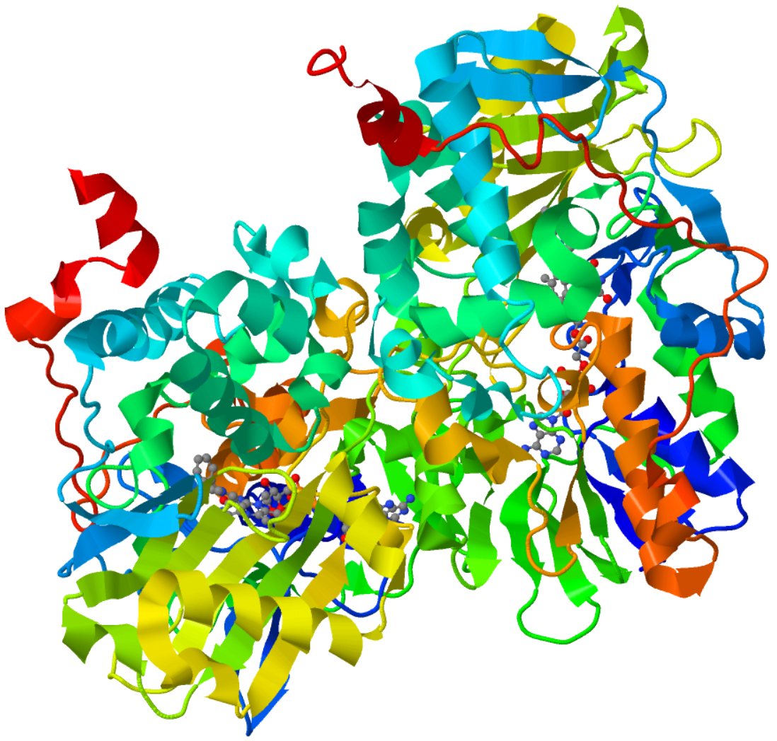 Gen w/ Deepview from PDB:1GOS